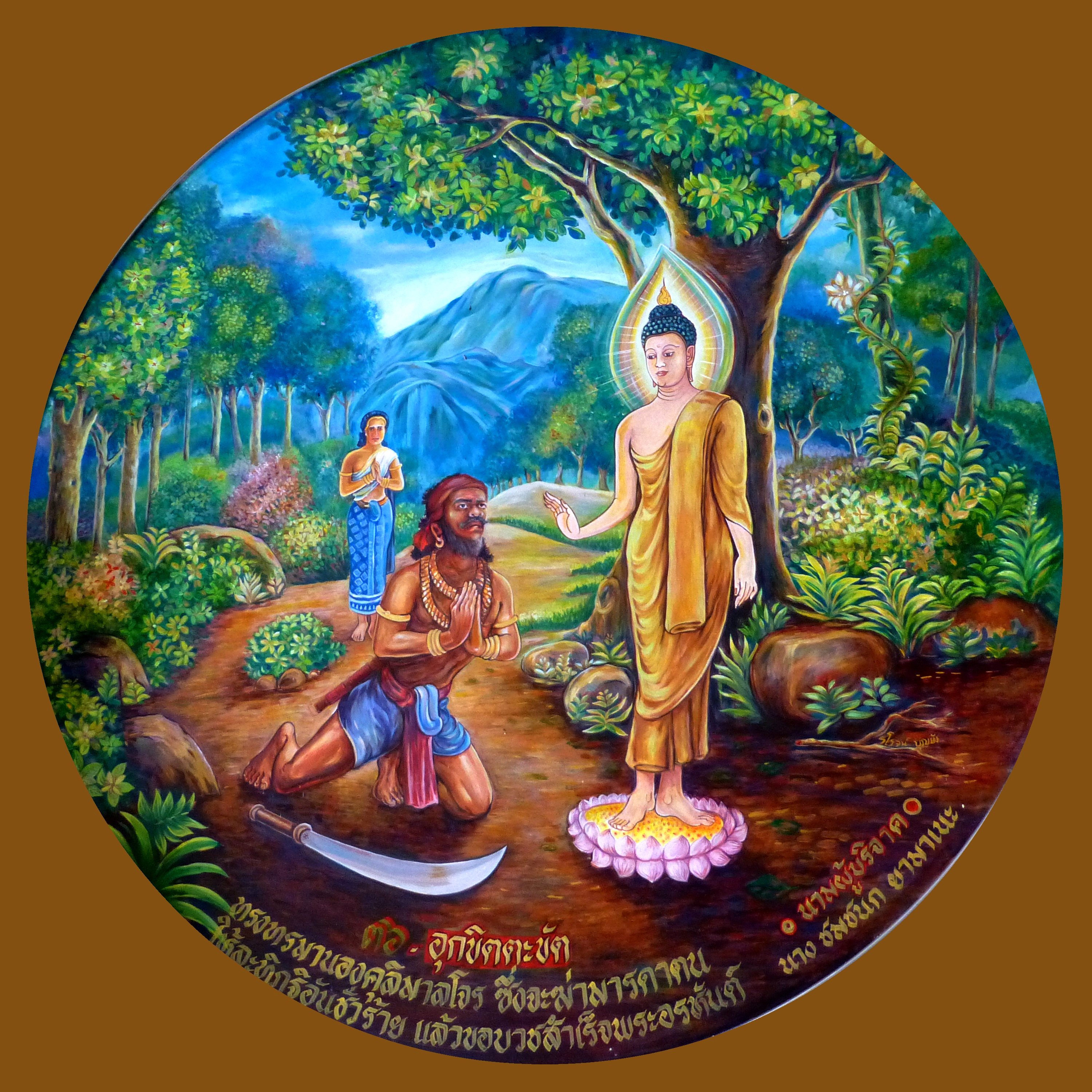 60 Blessings of Success 4, Psychic Power overcomes Angulimala, Chedi Traiphop Traimongkhon Temple, Hatyai